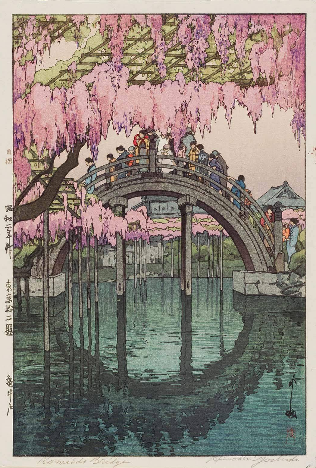 Drum bridge at Kameidô shrine Tokyo (woodcut)